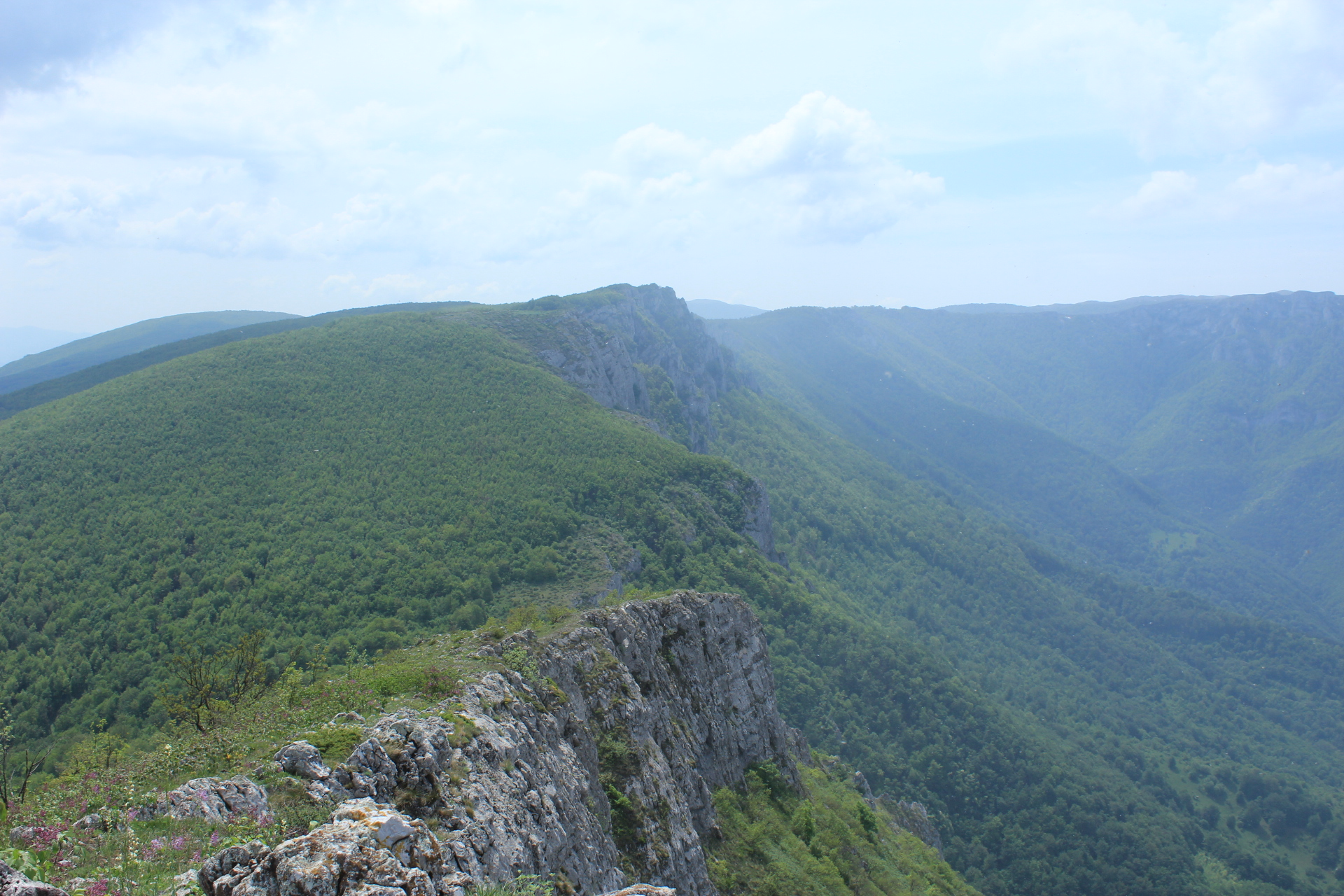 Suva mountain ridge. Srpski (latinica): Greben Suve planine južno od vrha Divna gorica.